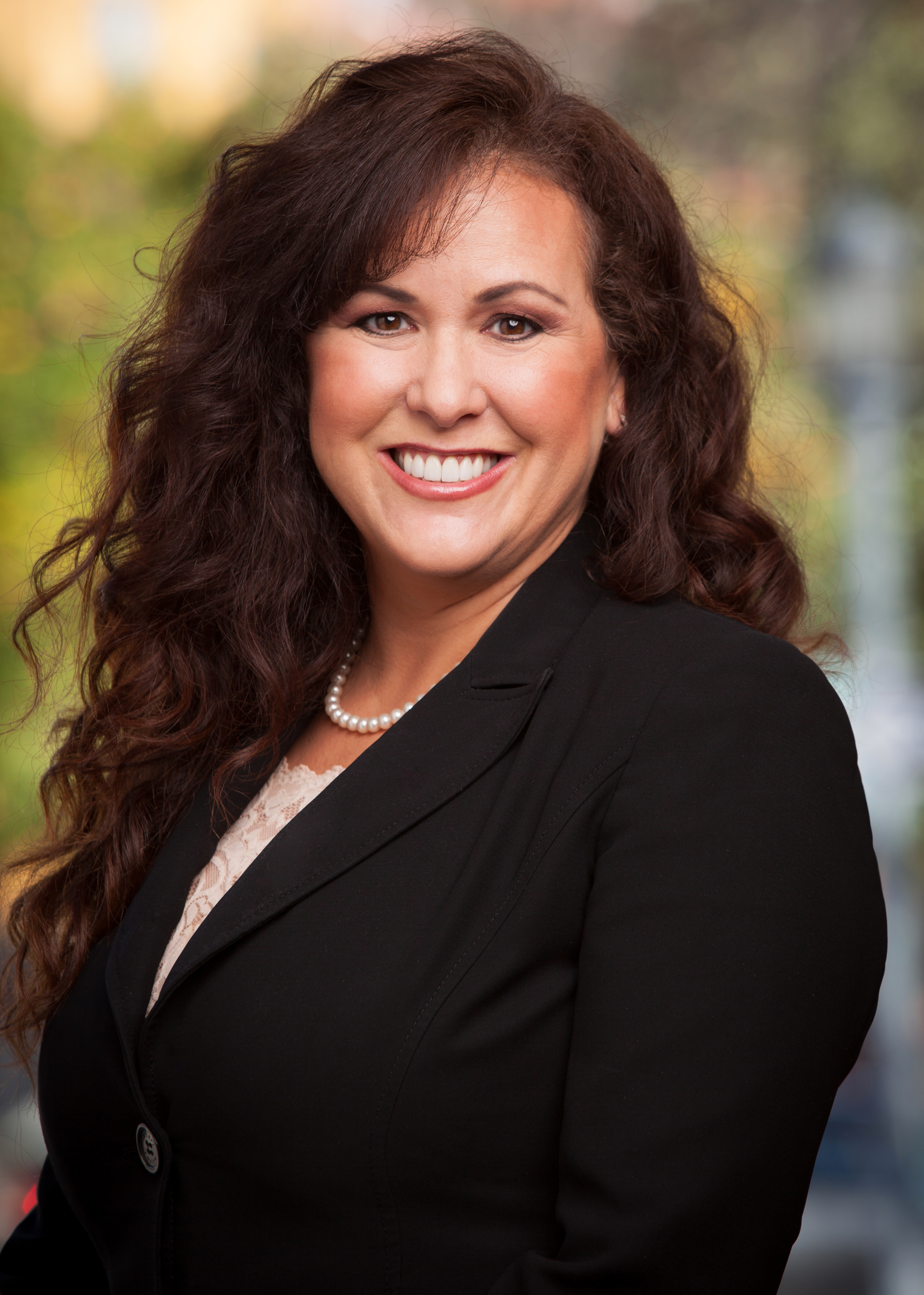 Assemblywoman Lorena Gonzalez